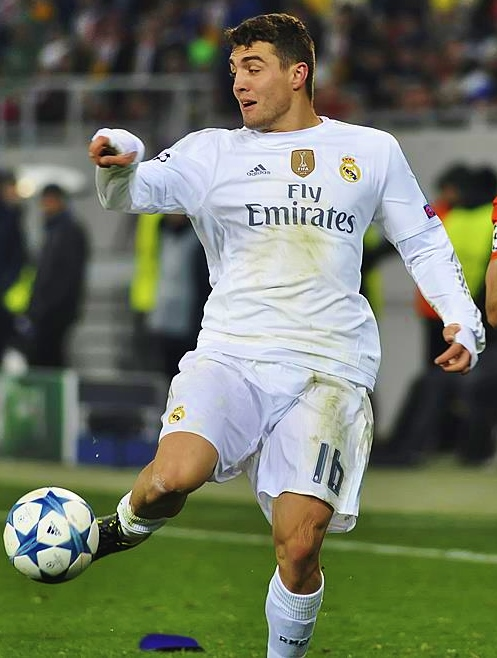 Mateo Kovačić